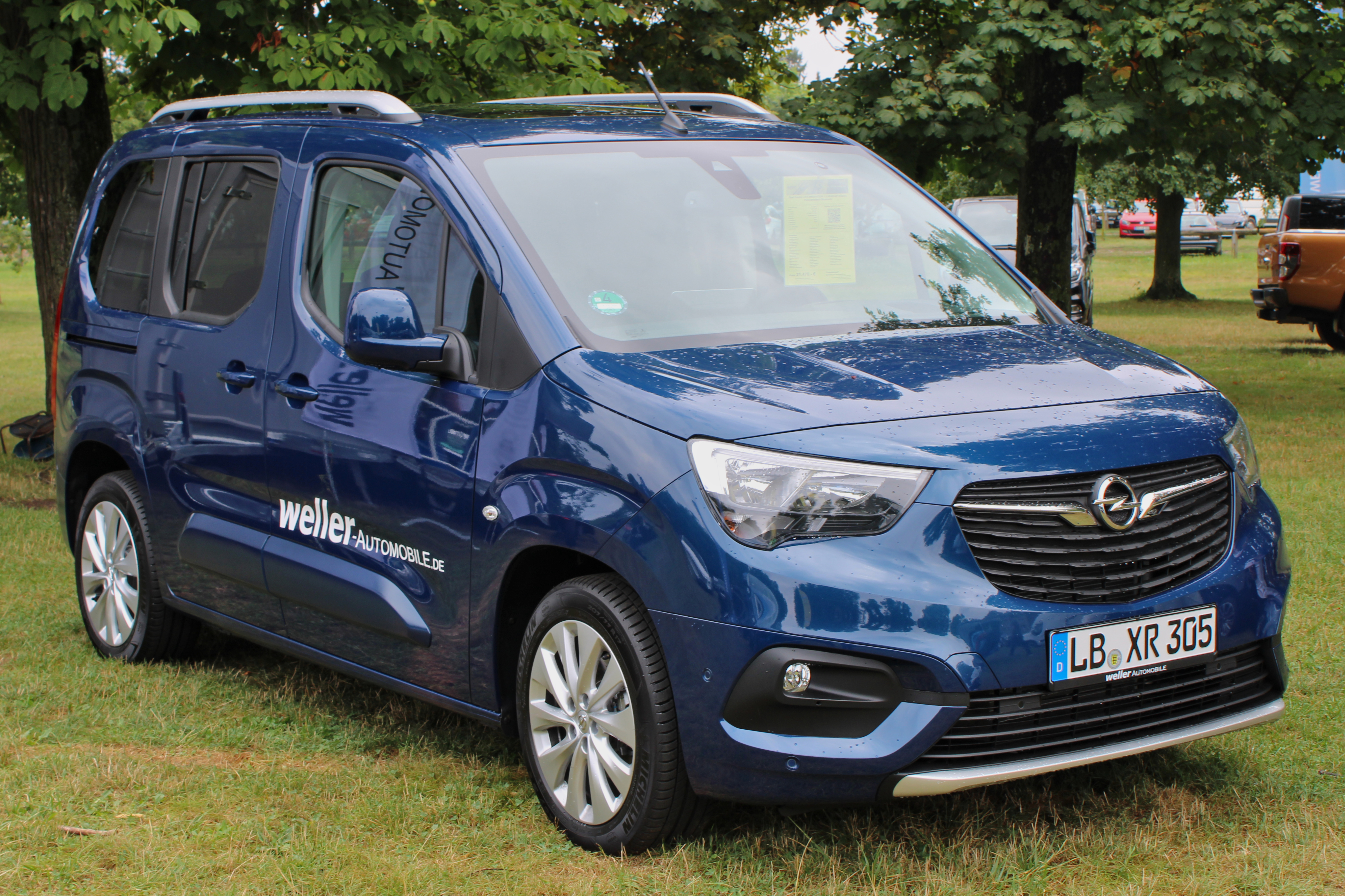 Opel Combo E at Schloss Monrepos 2019